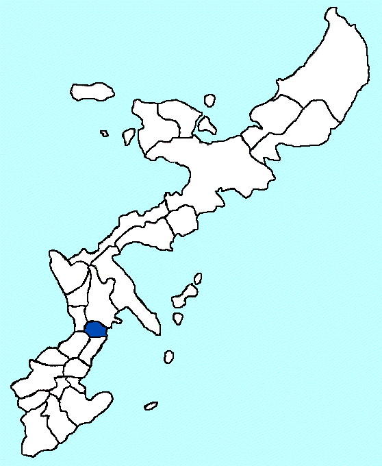 The location of Kitanakagusuku Village in Okinawa.